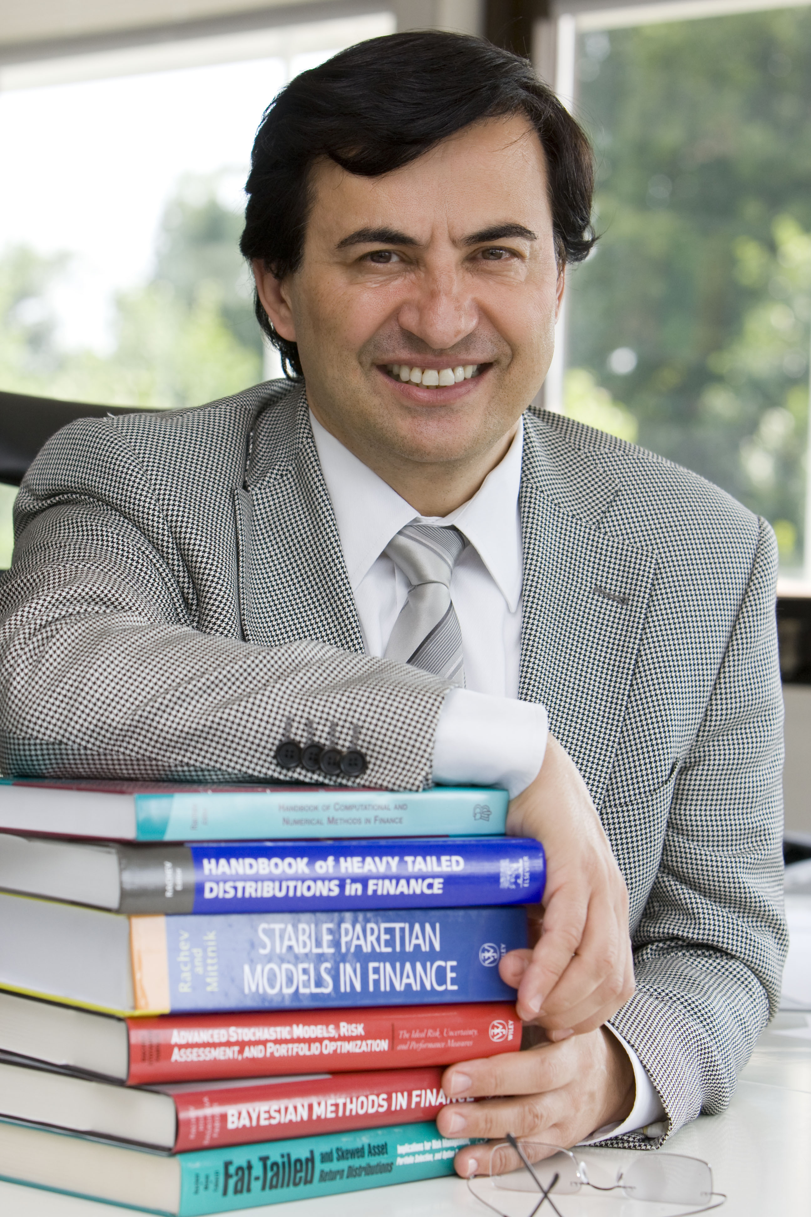 Portrait of Prof. Dr. Svetlozar T. Rachev (57 years old) in his office in KIT.